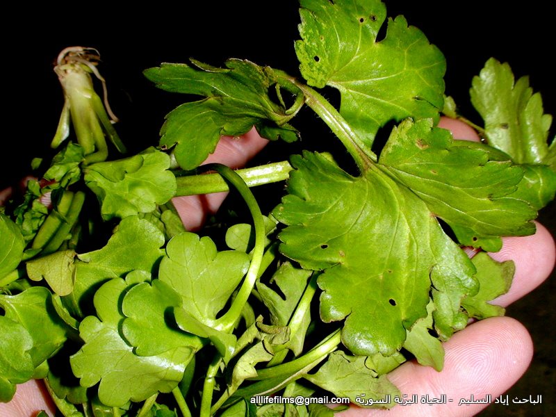 نبات برّي سوري يؤكل